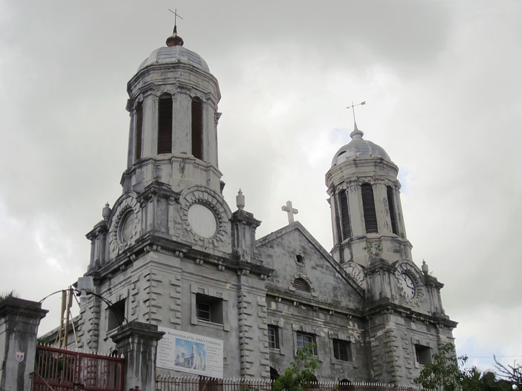 St. John's Anglican Cathedral, St. John's, Antigua, was rebuilt in 1847.